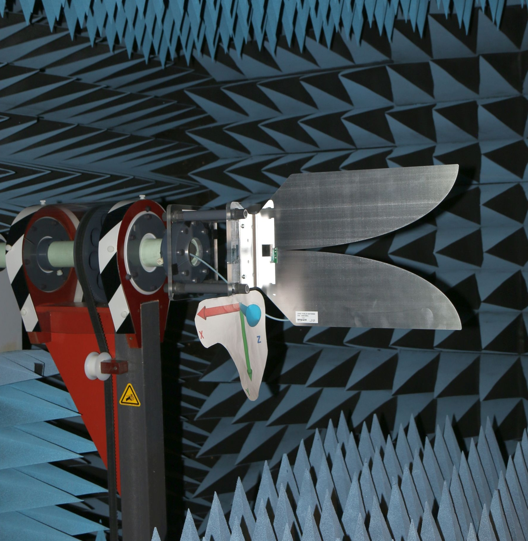 This one-piece sheet metal vivaldi antenna is undergoing testing in an anechoic chamber.